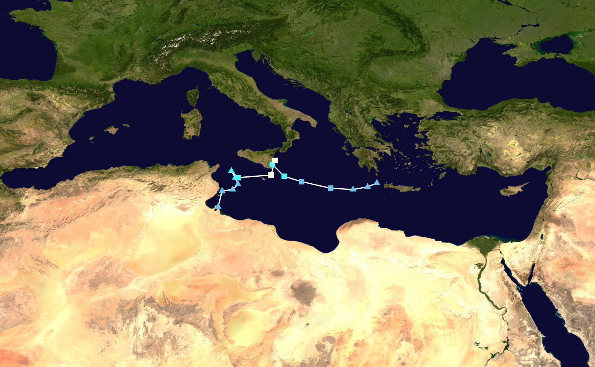 Track map of a Mediterranean tropical-like cyclone known as “Qendresa”. The points show the location of the storm at 6-hour intervals. The color represents the storm's maximum sustained wind speeds as classified in the Saffir–Simpson hurricane wind scale (see below), and the shape of the data points represent the nature of the storm, according to the legend below. Saffir–Simpson scale Tropical depression≤38 mph≤62 km/h Category 3111–129 mph178–208 km/h Tropical storm39–73 mph63–118 km/h Category 4130–156 mph209–251 km/h Category 174–95 mph119–153 km/h Category 5≥157 mph≥252 km/h Category 296–110 mph154–177 km/h Unknown Storm typeTropical cycloneSubtropical cycloneExtratropical cyclone / Remnant low / Tropical disturbance